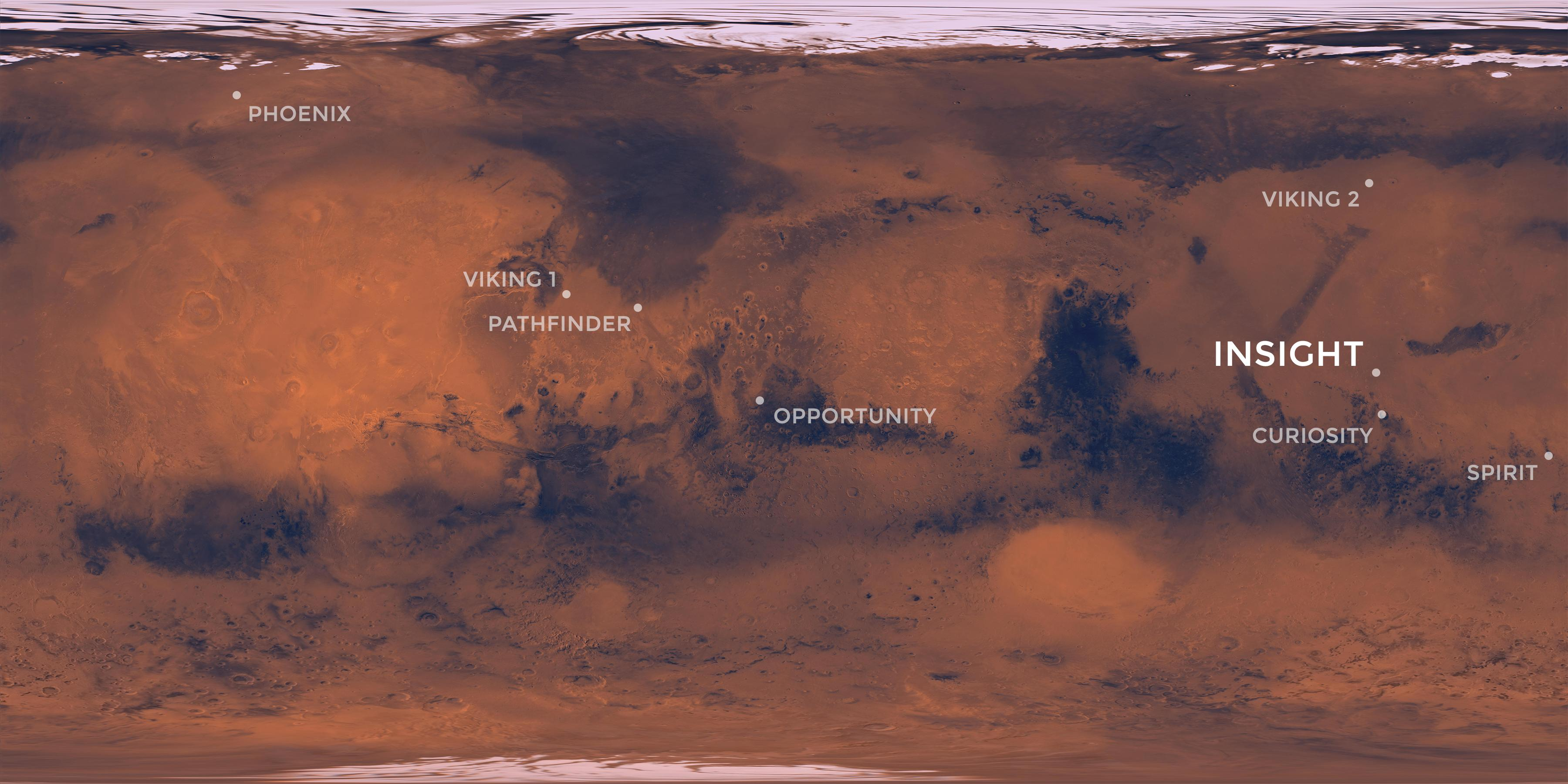 With photo Original Caption Released with Image: Elysium Planitia, a flat-smooth plain just north of the equator makes for the perfect location from which to study the deep Martian interior. Interior Exploration using Seismic Investigations, Geodesy and Heat Transport, or InSight, is designed to study the deep interior of Mars. The mission seeks the fingerprints of the processes that formed the rocky planets of the solar system. Its landing site, Elysium Planitia, was picked from 22 candidates, and is centered at about 4.5 degrees north latitude and 135.9 degrees east longitude; about 373 miles (600 kilometers) from Curiosity's landing site, Gale Crater. The locations of other Mars landers and rovers are labeled. InSight's scientific success and safe landing depends on landing in a relatively flat area, with an elevation low enough to have sufficient atmosphere above the site for a safe landing. It also depends on landing in an area where rocks are few in number. Elysium Planitia has just the right surface for the instruments to be able to probe the deep interior, and its proximity to the equator ensures that the solar-powered lander is exposed to plenty of sunlight. JPL, a division of Caltech in Pasadena, California, manages the InSight Project for NASA's Science Mission Directorate, Washington. Lockheed Martin Space, Denver, built the spacecraft. InSight is part of NASA's Discovery Program, which is managed by NASA's Marshall Space Flight Center in Huntsville, Alabama. For more information about the mission, go to Image Credit: NASA/JPL-Caltech Image Addition Date: 2018-01-25